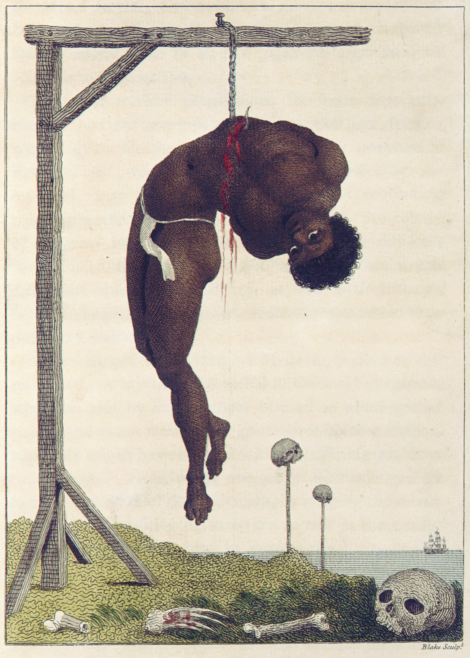 Detail from William Blake's illustration John Gabriel Stedman, Narrative, of a Five Years' Expedition, against the Revolted Negroes of Surinam, copy 2, object 2 (Bentley 499.2) "A Negro hung alive by the Ribs to a Gallows"